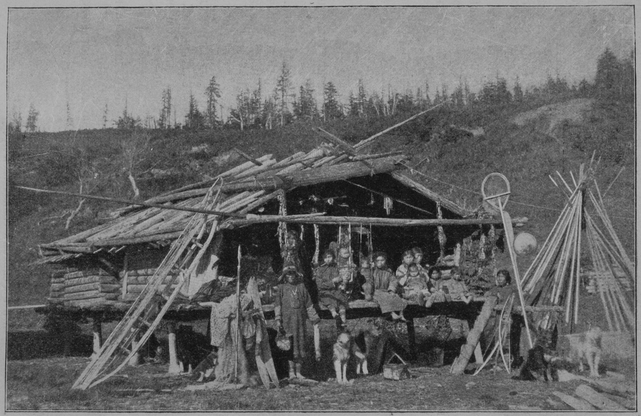 Native people of Sakhalin. Nivkh hut. People live in upper area, dogs — in lower area